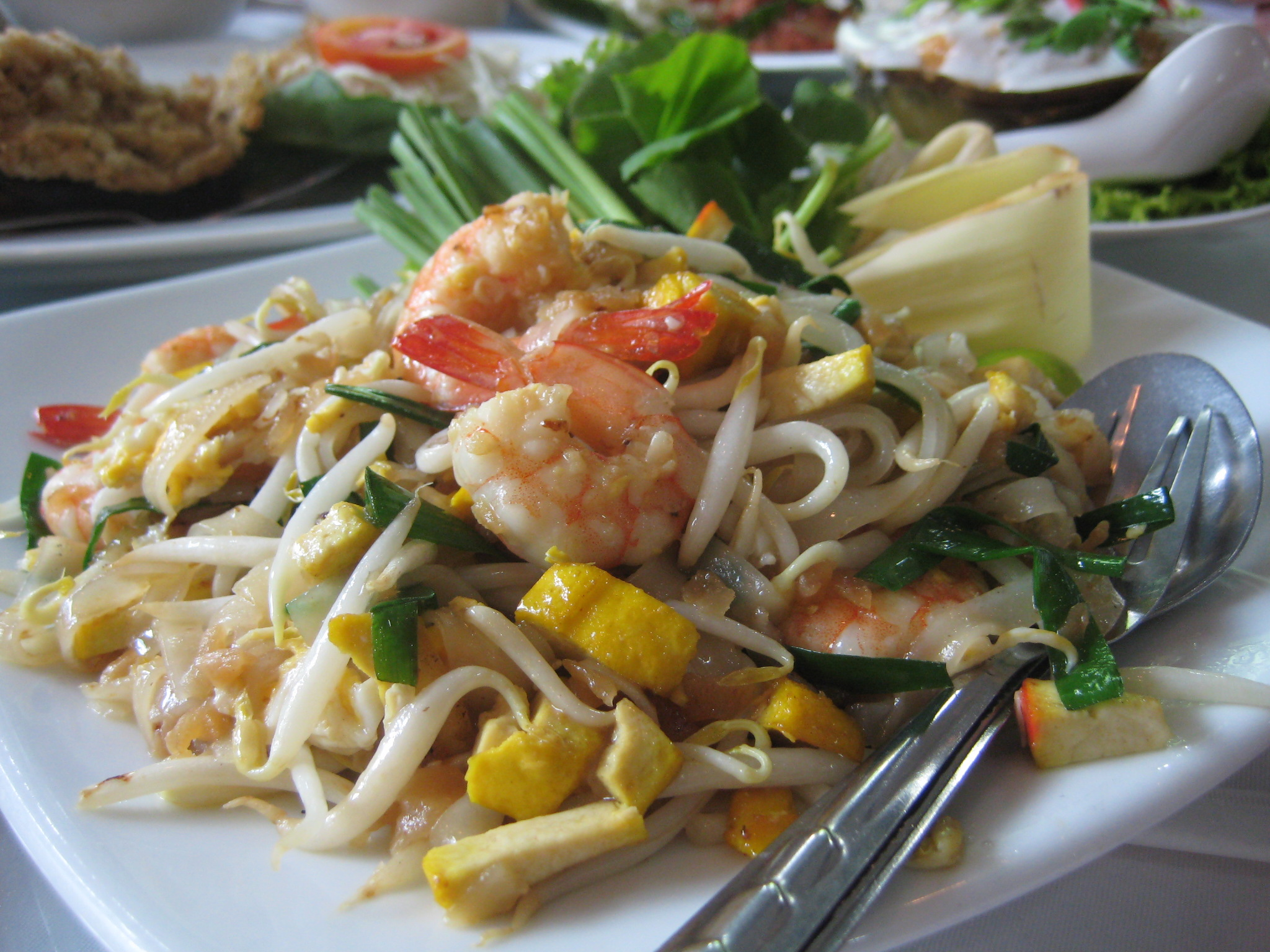 Pad thai (ผัดไทย), served in Bangkok.